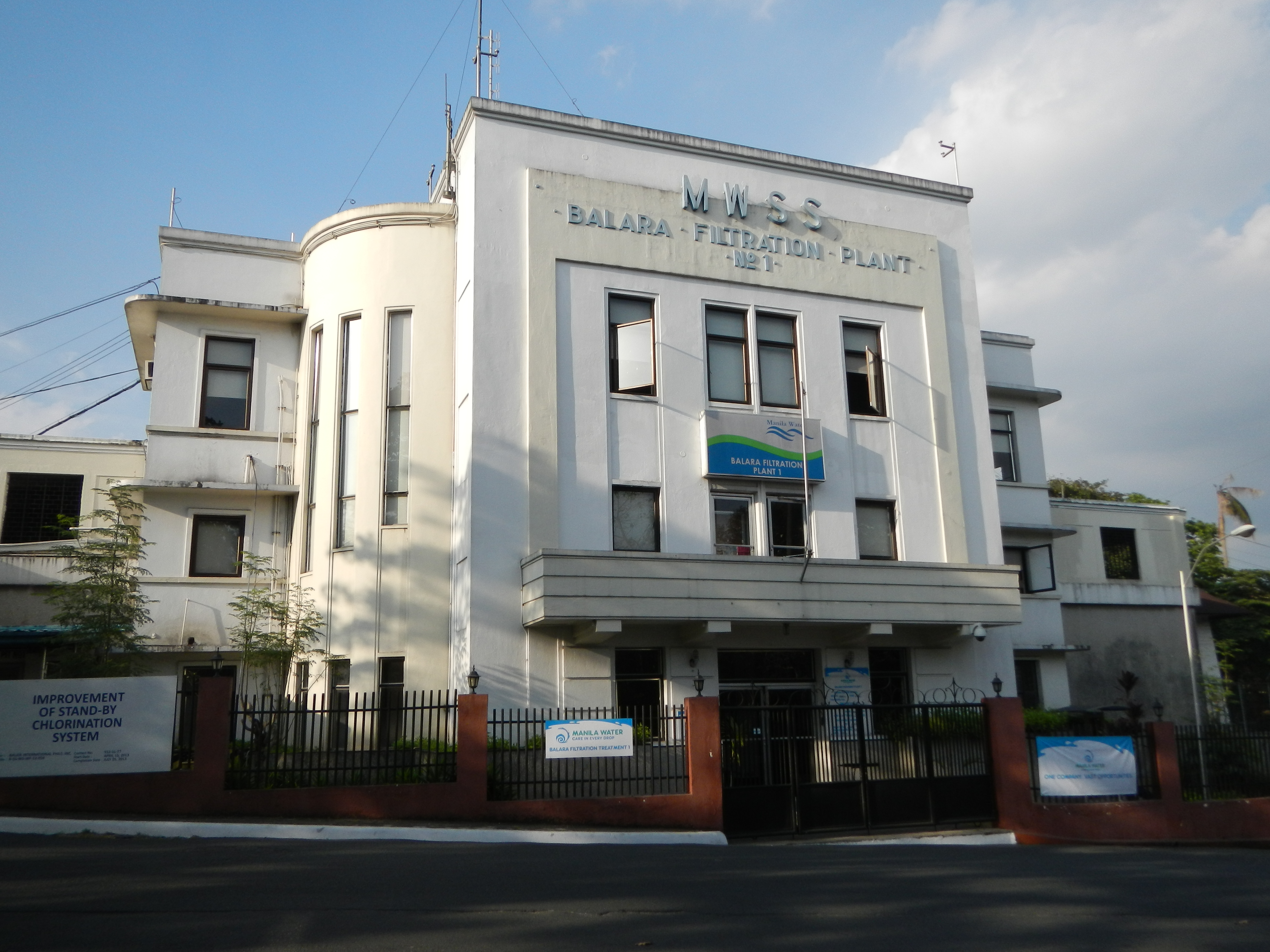 Photos of Balara Filters Park (Nature And Wildlife) - in Katipunan Extension, Diliman, Quezon City - or the Manila Water Lakbayan Cente is a 60 hectare property almost as big as Rizal Park dotted with vintage structures and statuary such as : an Italian Style Chapel, the Orosa Hall, Escoda Hall Swimming Pool, Balara Filtration Windmill, Children's Park, the MWSS Balara Water Reservoir and Filtration Plant, Water Drinking Treatment Plant this is part of the List of Art Deco architecture and List of parks in Manila. This park is managed and is under the exclusive jurisdiction of Metropolitan Waterworks and Sewerage System that is, Manila Water Water Delivery Sewerage [1] and Sanitation [2] at the Balara Treatment Plant, and also under Manila Water and finally by